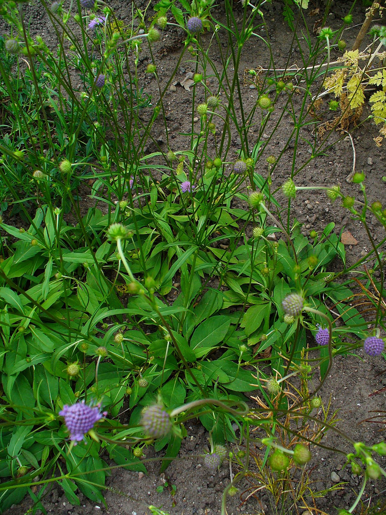 Succisa pratensis, Dipsacaceae, Devil's-bit Scabious, habitus. Botanical Garden KIT, Karlsruhe, Germany.